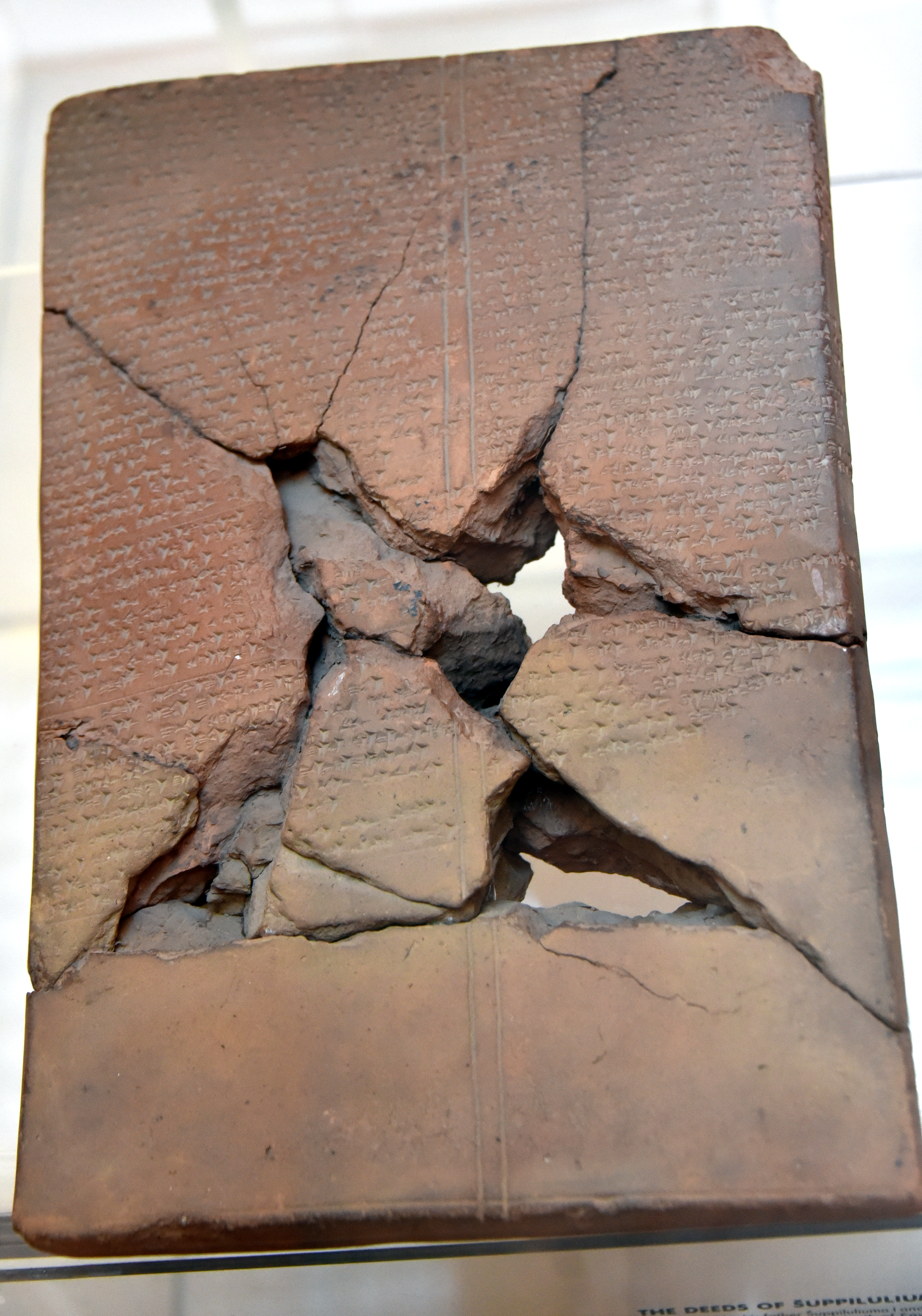 Clay tablet narrating the Hittite king Suppiluliuma I's deeds. 2nd half of the 14th century BC. From Hattusa, Turkey. Istanbul Archaeological Museum, Turkey.